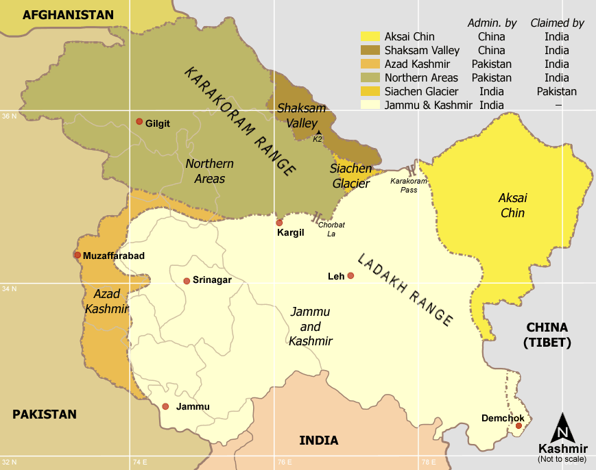 Kashmir region - Political and Military standoff between India, China and Pakistan Self-made from Reference: Atlas of the World (2003 Comprehensive Ed.) - The Royal Geographical Society - (ISBN 0540084050)